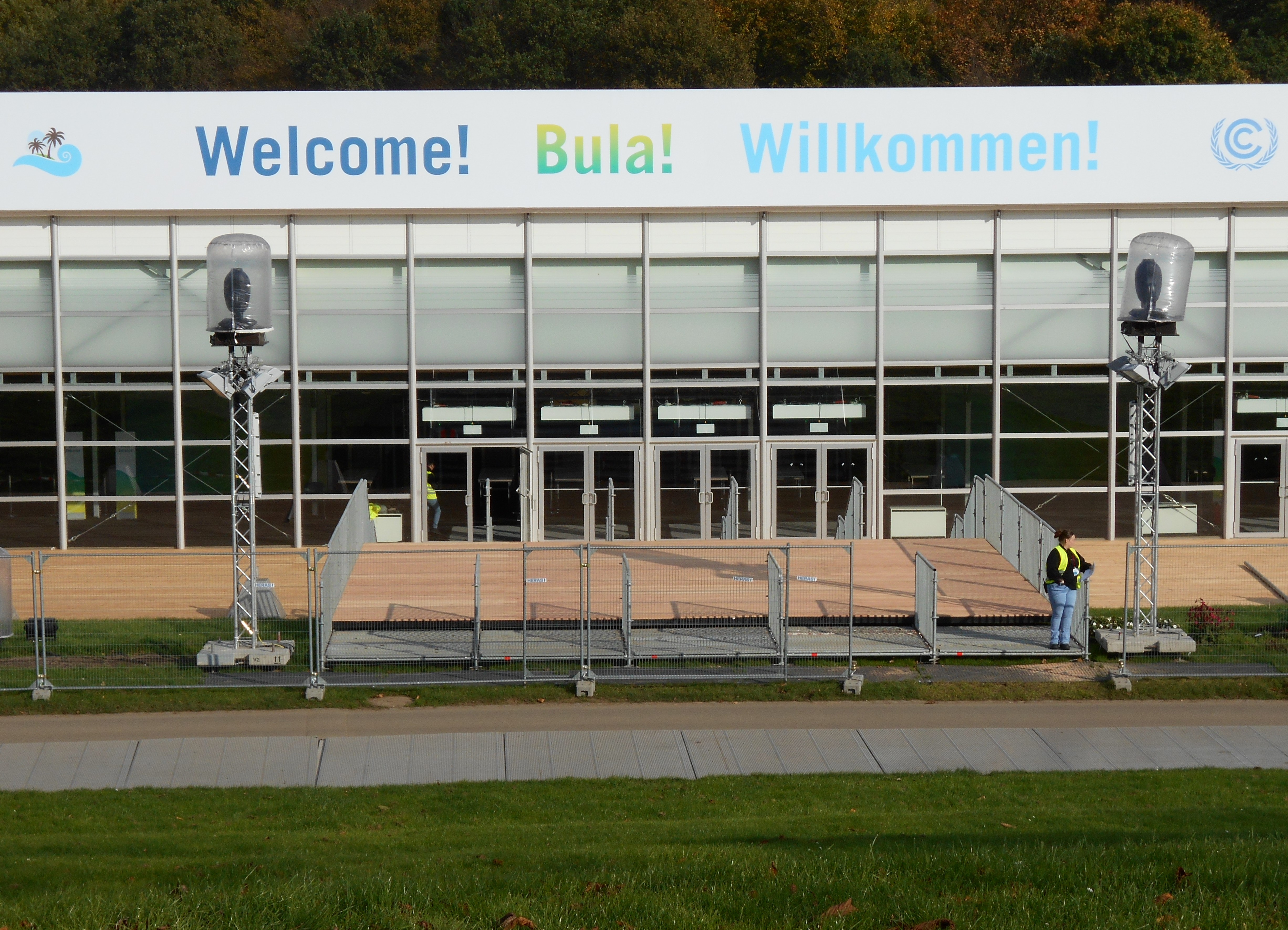 Entrance of the so-called “Bonn-zone” at the Rheinaue park in Bonn, where events, exhibitions and presentation of the countries and UN organisations take place during COP 23. Text: 'Welcome! Bula! Willkommen!'